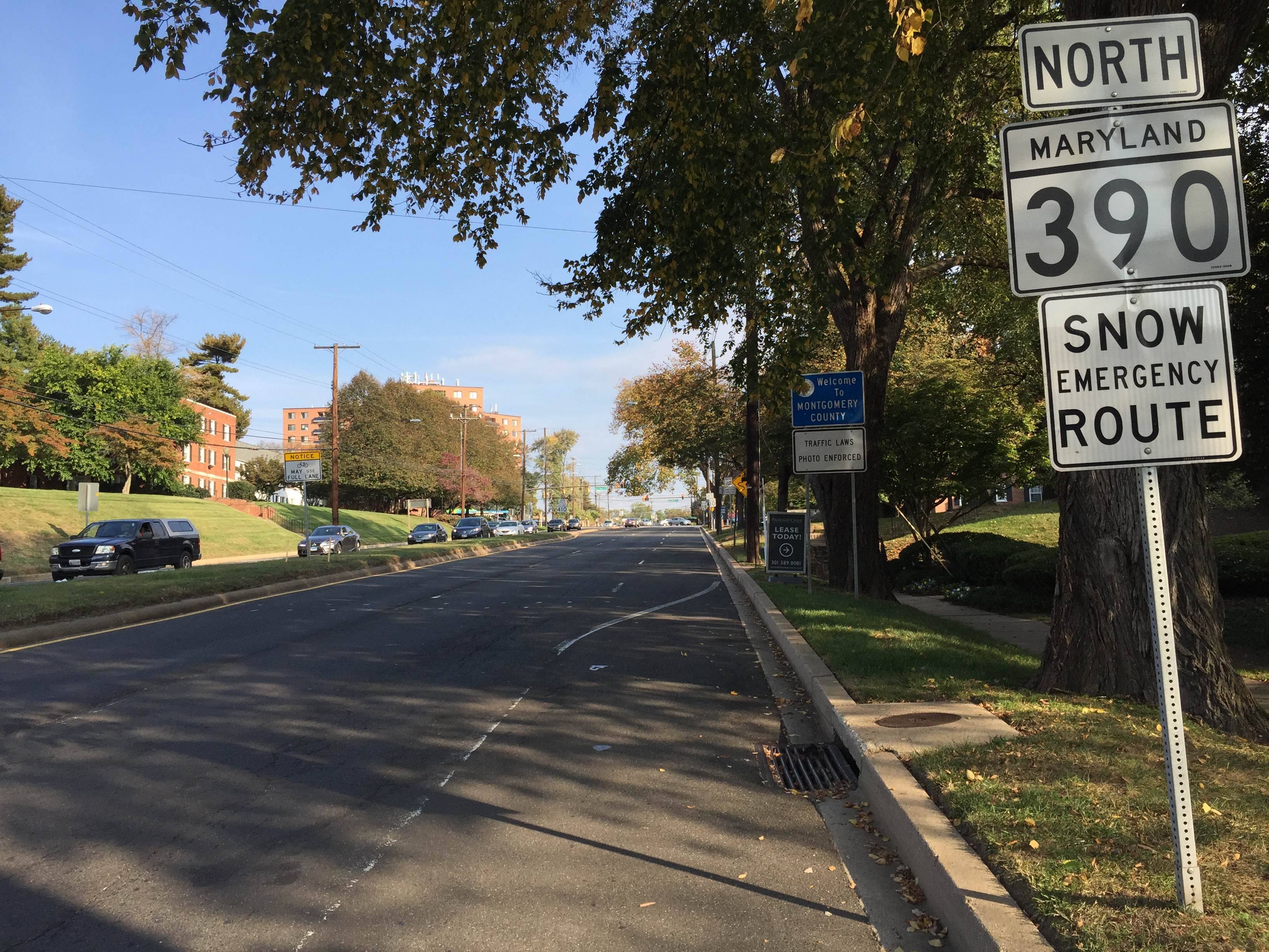 View north along Maryland State Route 390 (16th Street) at Maryland State Route 384 (Colesville Road) in Silver Spring, Montgomery County, Maryland